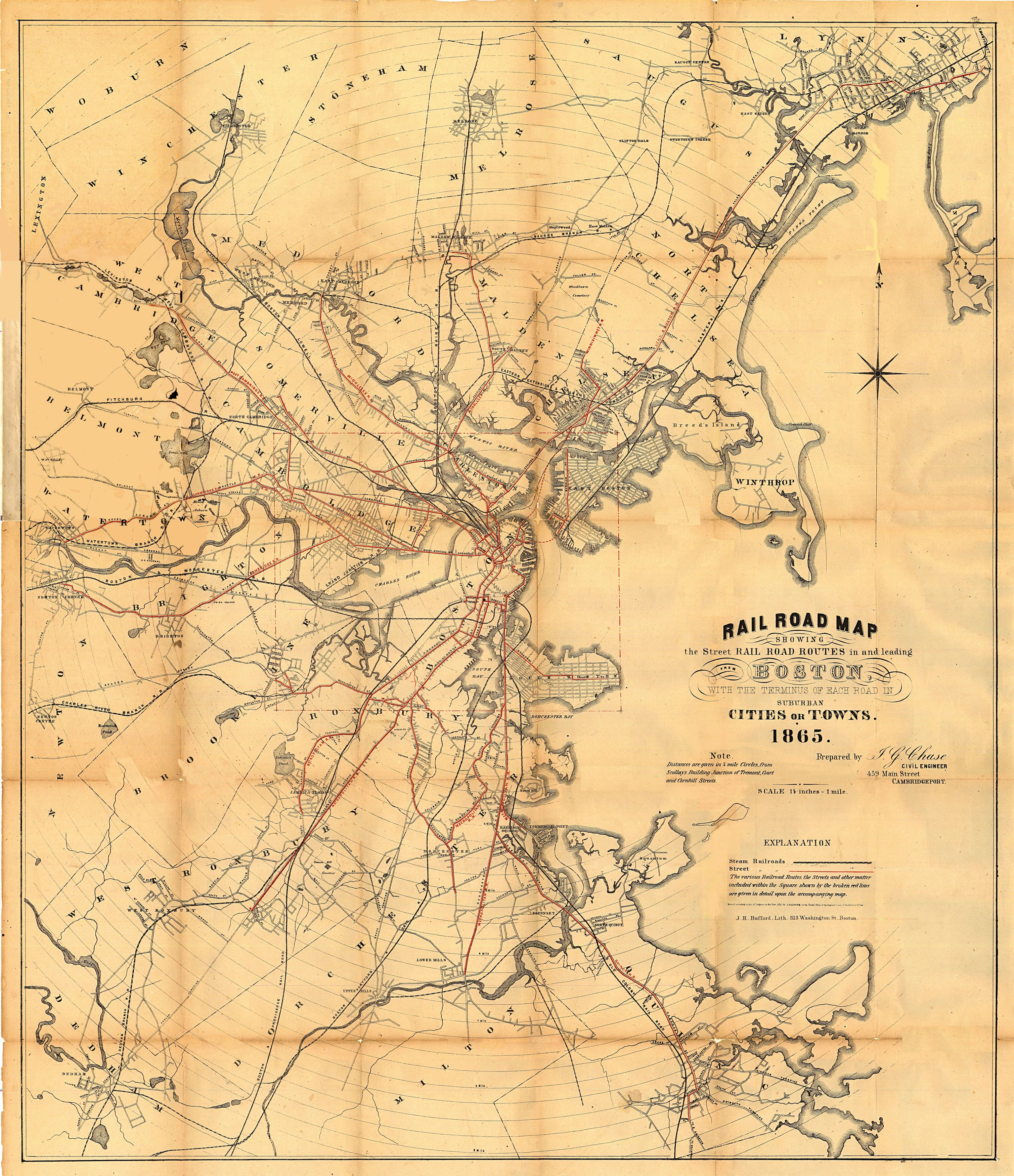 1865 map of horsecar routes in Boston and its inner suburbs